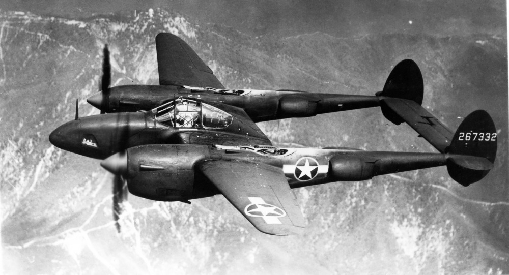 PictionID:40973244 - Title:Lightning Lockheed F-5B - Catalog:15_002803 - Filename:15_002803.tif - Image from the Charles Daniels Photo Collection album "US Army Aircraft."----PLEASE TAG this image with any information you know about it, so that we can permanently store this data with the original image file in our Digital Asset Management System.----SOURCE INSTITUTION: San Diego Air and Space Museum Archive